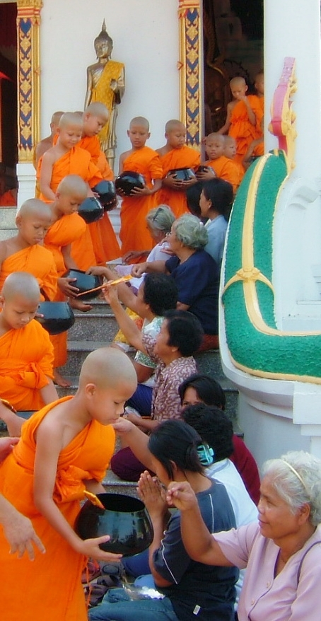 Buddhist child is receiving food. Location: Wat Khung Taphao Ban Khung Taphao, Khung Taphao subdistrict, Mueang Uttaradit, Uttaradit Province, Thailand.